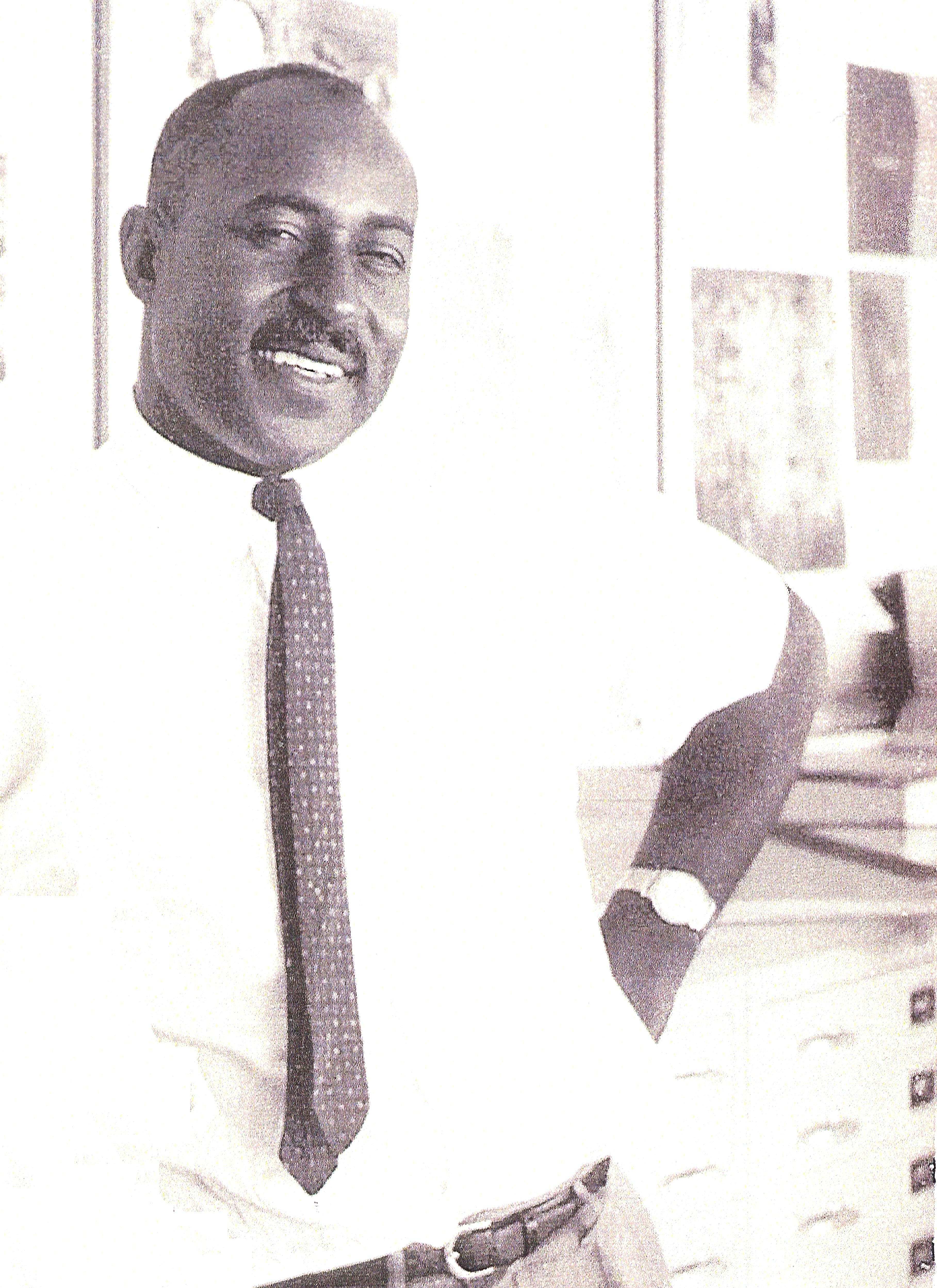 Scanned snapshot of the visual artist Thomas Miller at the offices of Morton Goldsholl Associates,circa 1958